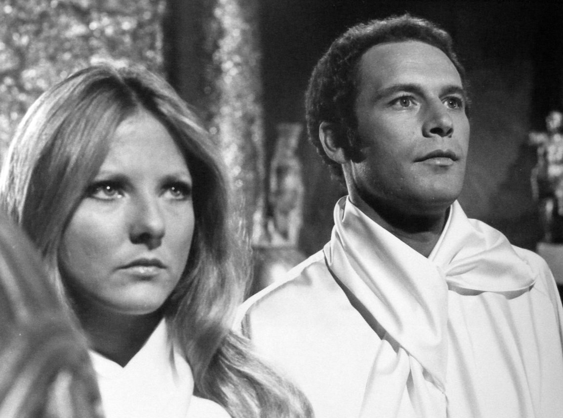 Photo of Christina Hart as Gwenith and Jared Martin as Varian from the short-lived television program The Fantastic Journey. The episode is "An Act of Love"; Hart's character was a love interest for Martin's.